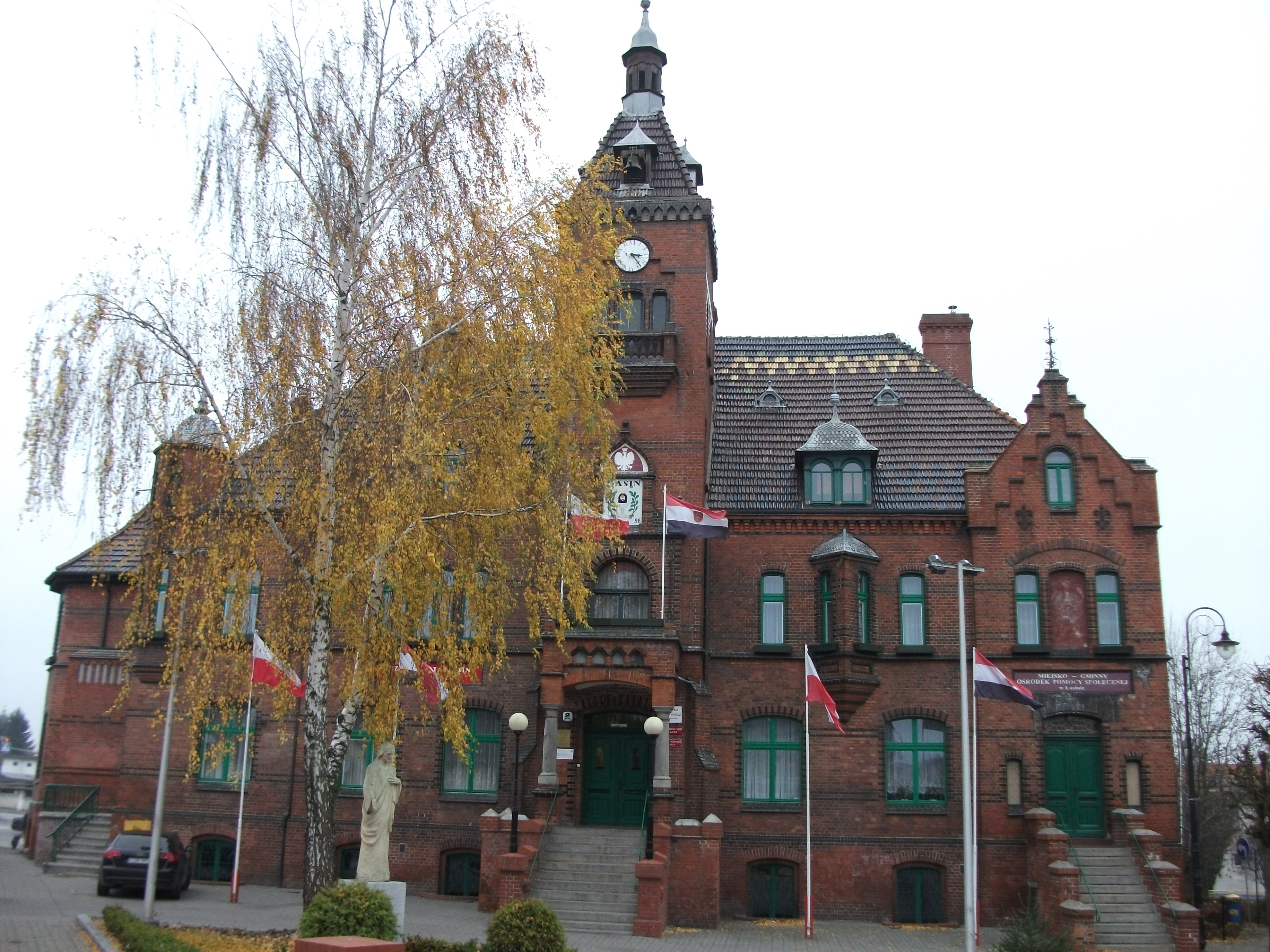 Town hall in Łasin